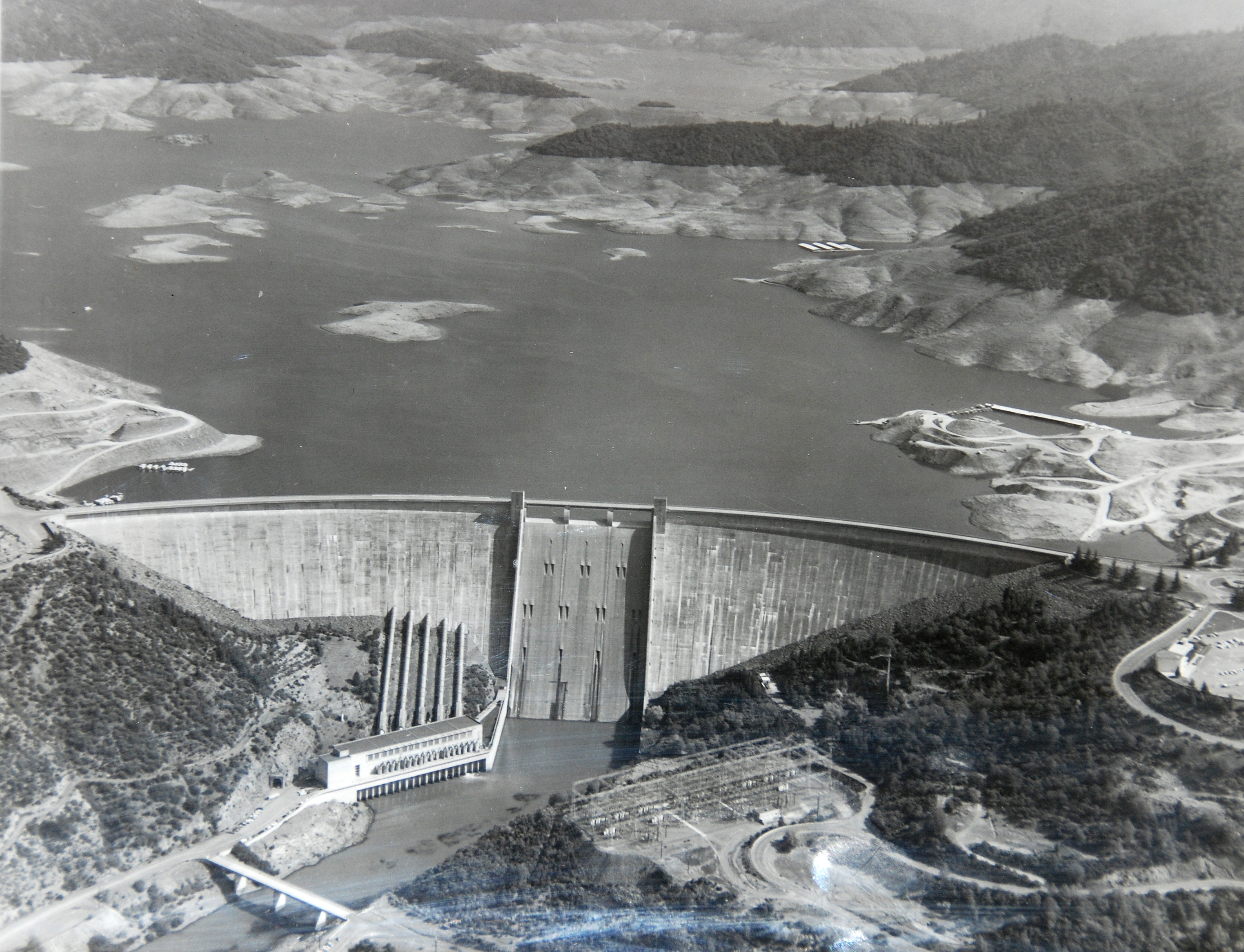 Shasta Dam in California, USA